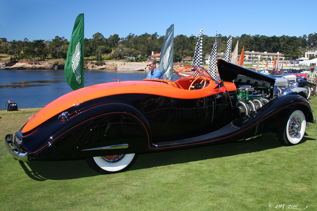 1935 Duesenberg J. This photo was taken on June 4, 2010 in Pebble Beach, California, US.